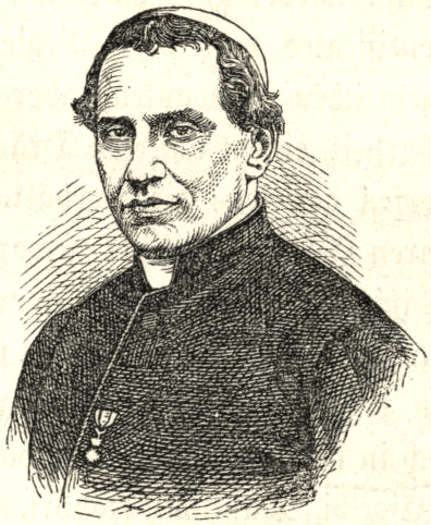 Cardinal Giacomo Antonelli, Secretary of State during Pius IX's papacy.